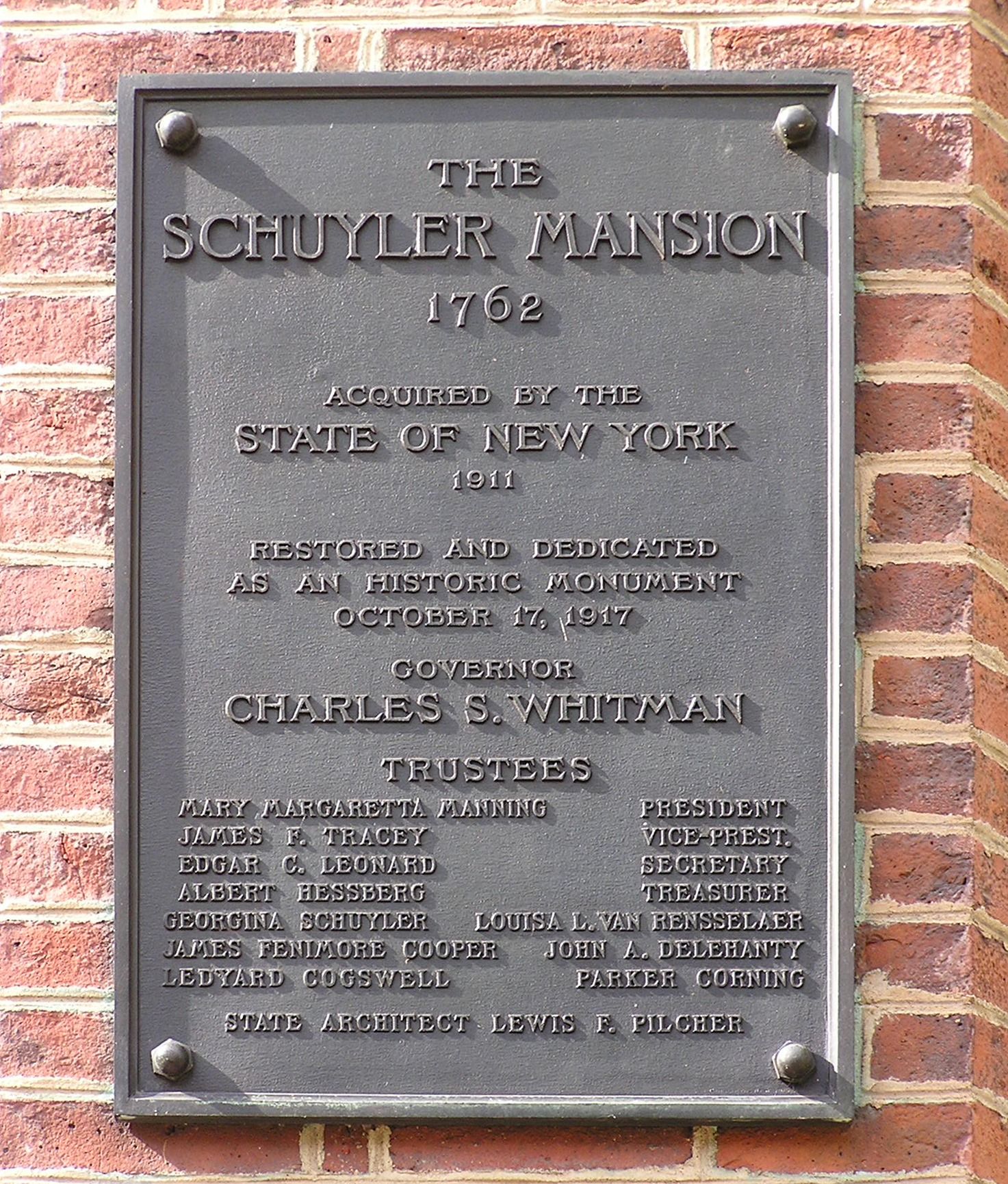 Location: Schuyler Mansion Historic Site, 32 Catherine Street in Albany, New York. Text: The Schuyler Mansion 1762 Acquired by the State of New York 1911 Restored and dedicated as an historic monument October 17, 1917 Governor: Charles S. Whitman Trustees Mary Margaretta Manning President James E. Tracey Vice-Prest. Edgar C. Leonard Secretary Albert Hessberg Treasurer Georgina Schuyler Louisa L. Van Rensselaer James Fenimore Cooper John A. Delehanty Ledyard Cogswell Parker Corning State Architect Lewis P. Pilghee